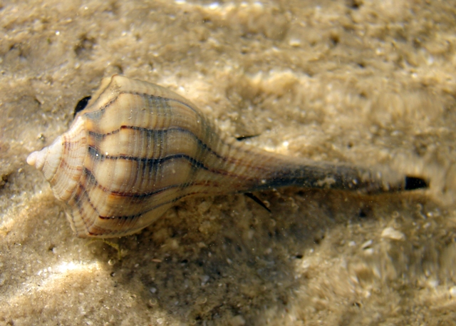 Lightning Whelk, Sinistrofulgur perversum (Linnaeus, 1758) (synonym: Busycon perversum), crawling in shallow water